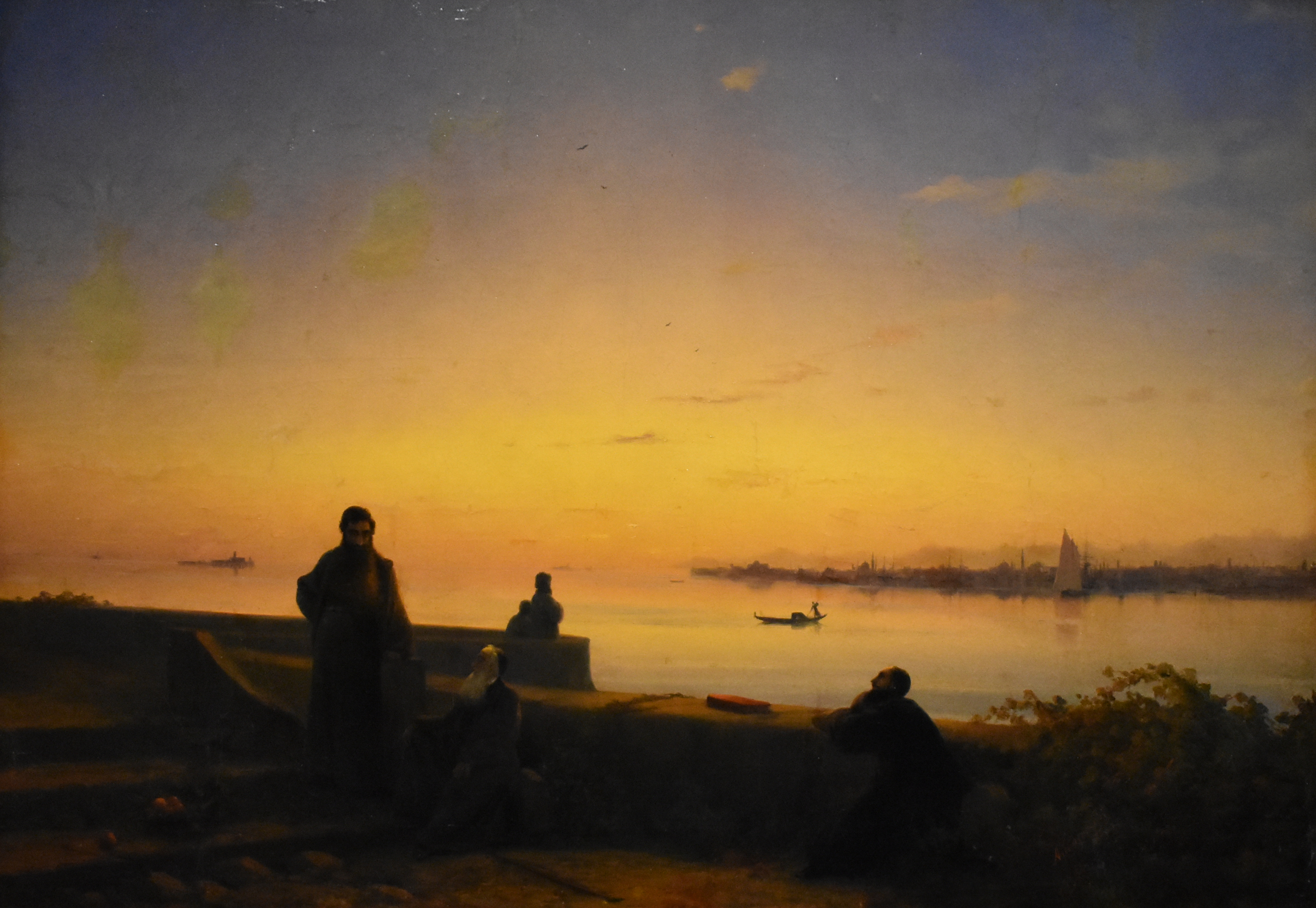 Ivan Aivazovsky. The Mekhitarist Fathers on San Lazzaro Island. Venice, 1843, oil on canvas, 68.5 x 100